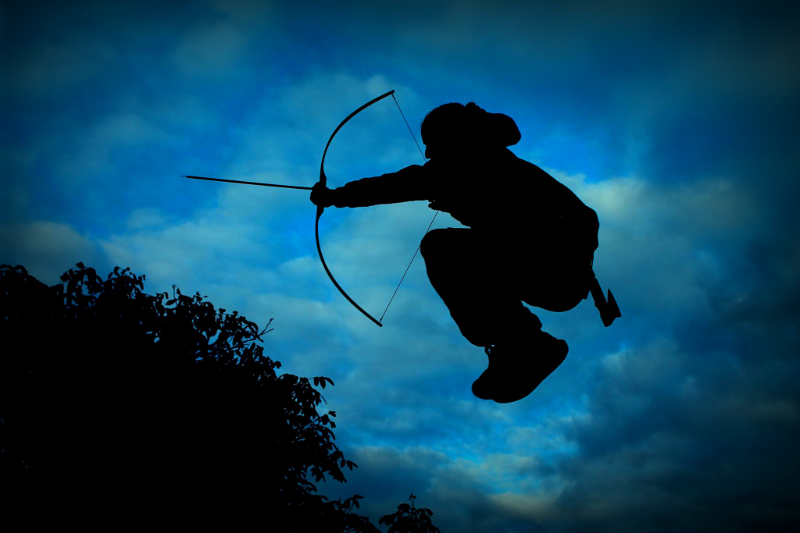 A jumping warrior with bow and arrow.